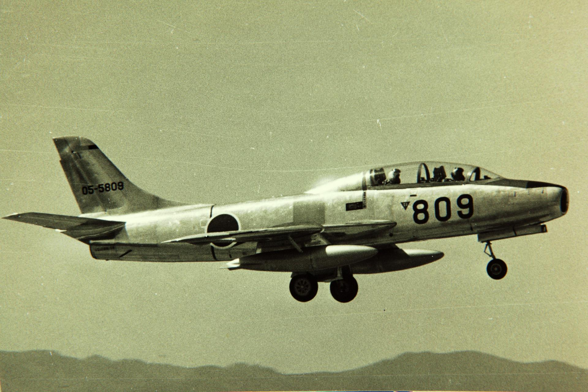 Catalog #: 01_00080630 Title: Fuji, T-1A Corporation Name: Fuji Additional Information: Japan Designation: T-1A Tags: Fuji, T-1A